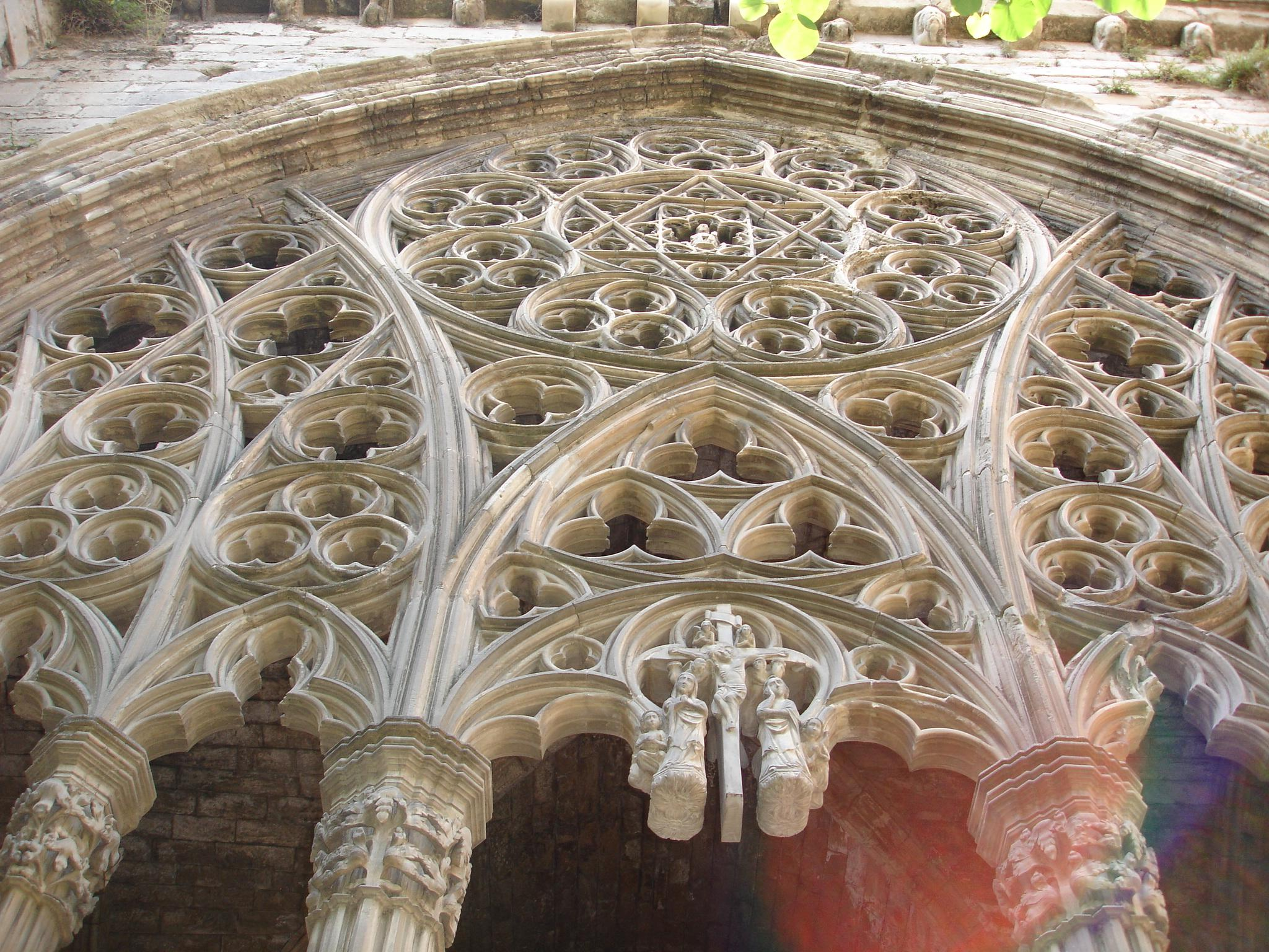 Star of David, in the cloister of the Old Cathedral of Lleida.